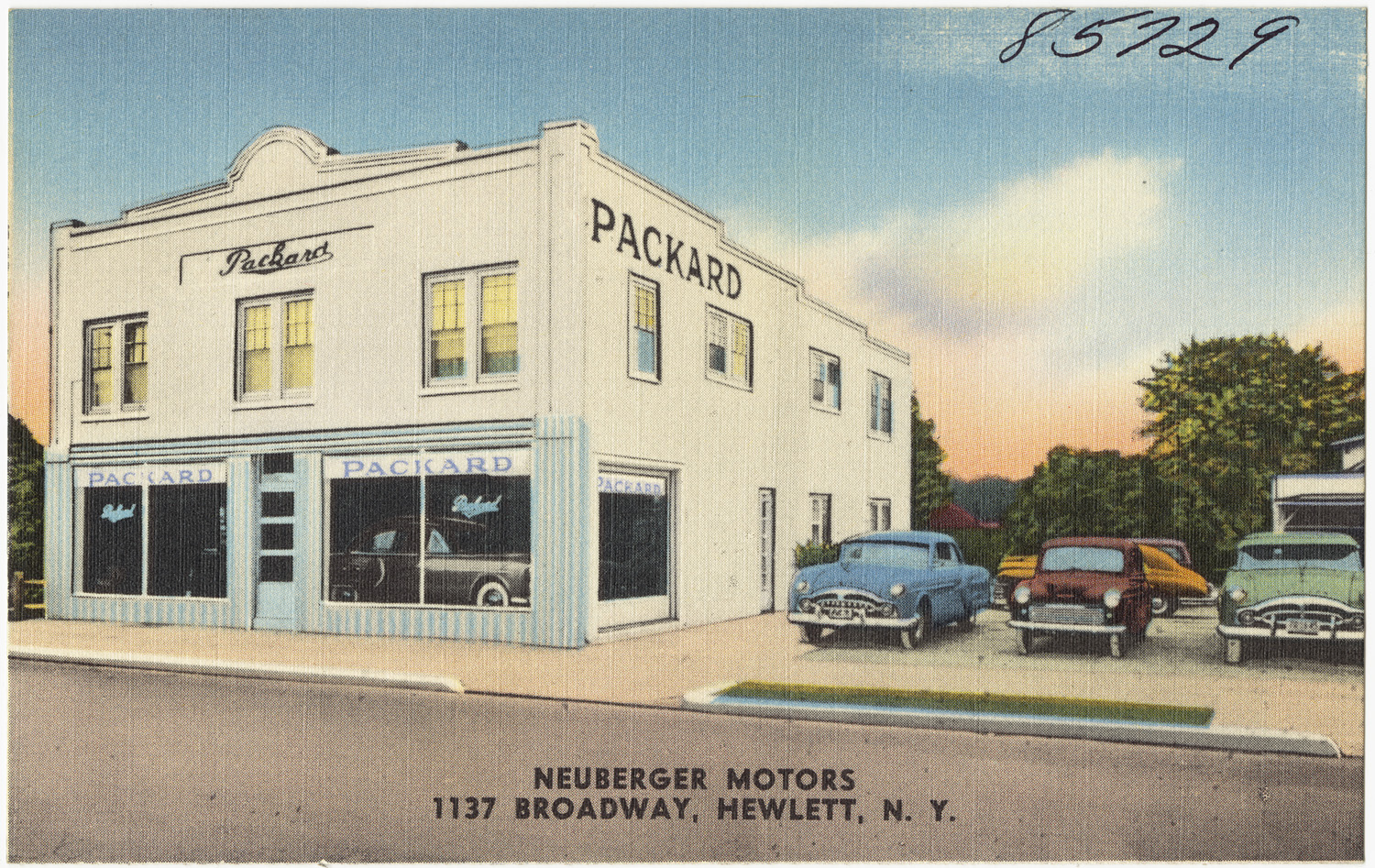 File name: 06_10_005132 Title: Neuberger Motors, 1137 Broadway, Hewlett, N. Y., 1952 Created/Published: Produced by Howard A. Wohl, 1472, B'way, N.Y.C., LO 3-3230 Date issued: 1950 - 1955 (approximate) Physical description: 1 print (postcard) : linen texture, color ; 3 1/2 x 5 1/2 in. Genre: Postcards Subjects: Commercial facilities Notes: Title from item. Collection: The Tichnor Brothers Collection Location: Boston Public Library, Print Department Rights: No known restrictions